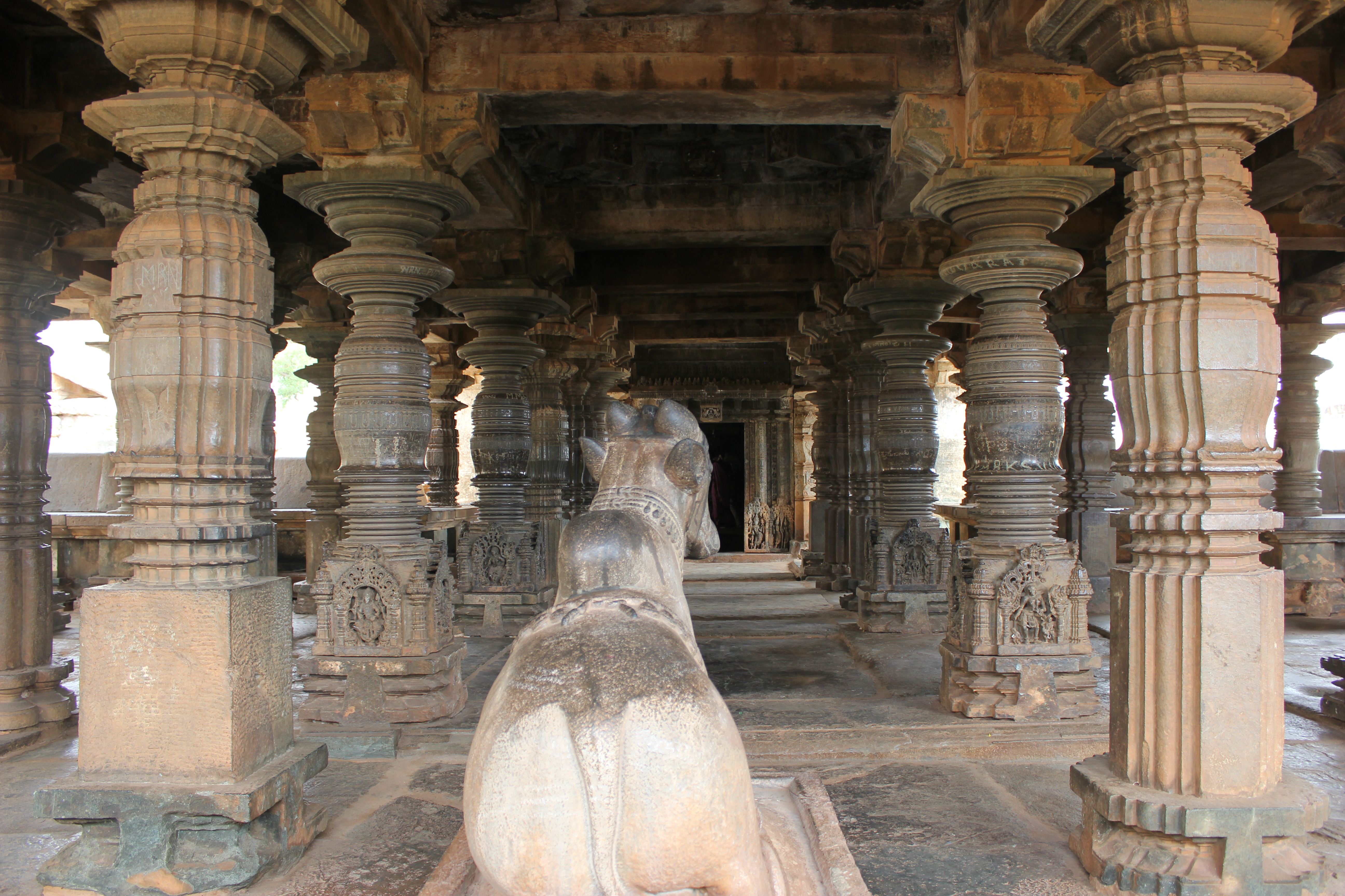 This photograph was taken by me at the Kalleshvara temple (also spelt Kalleshwara or Kallesvara) at Bagali (called Balgali in ancient times), Davangere district, Karnataka state, India. The temple construction was started in the late Rashtrakuta period and completed by Western (Kalyani) Chalukya King Tailapa II in 987 A.D.